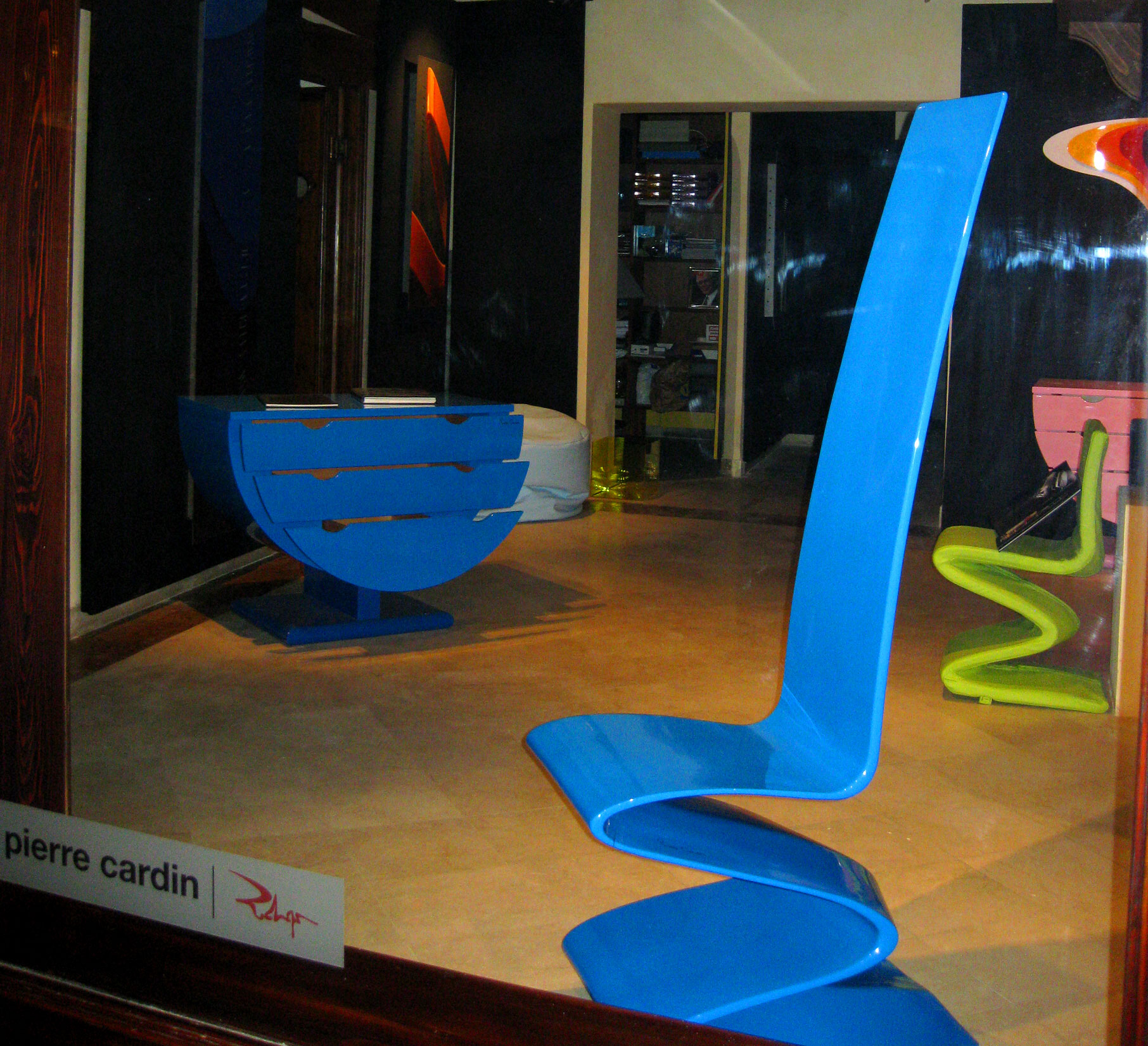 "Boa" chair inside the showroom Sculptures Utilitaires in Venice.